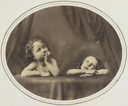 Non Angeli sed Angli, albumen print by O. G. Rejlander, a study of the Sistine Madonna